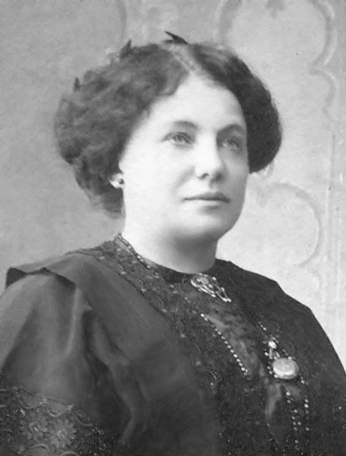 Anna Larroucau Laborde de Lucero's portrait. Argentine philanthropist. Born in Oloron-Sainte-Marie, France, (1864-1956). Picture ca. 1911, Arroyo Seco, Provincia de Santa Fe, Argentina.